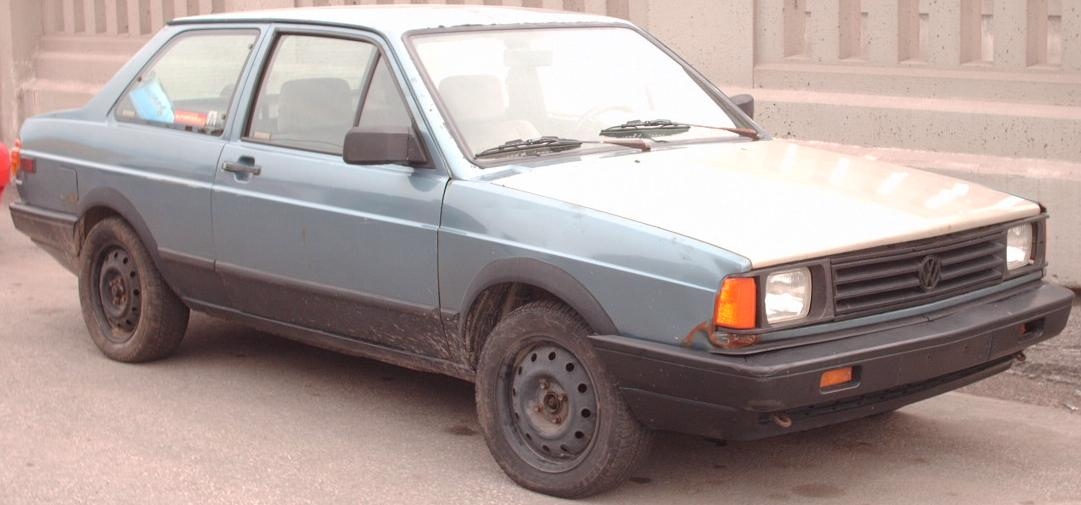 1987-1993 Volkswagen Fox coupe photographed in Montreal, Quebec, Canada.